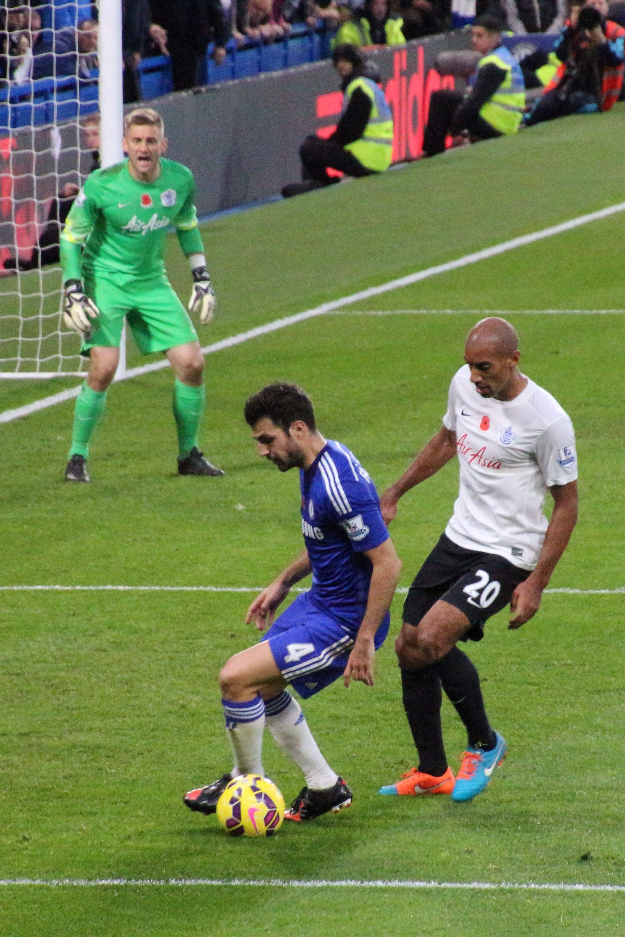 Chelsea 2 QPR 1 Premier League match between Chelsea and Queens Park Rangers at Stamford Bridge on 1 November 2014.